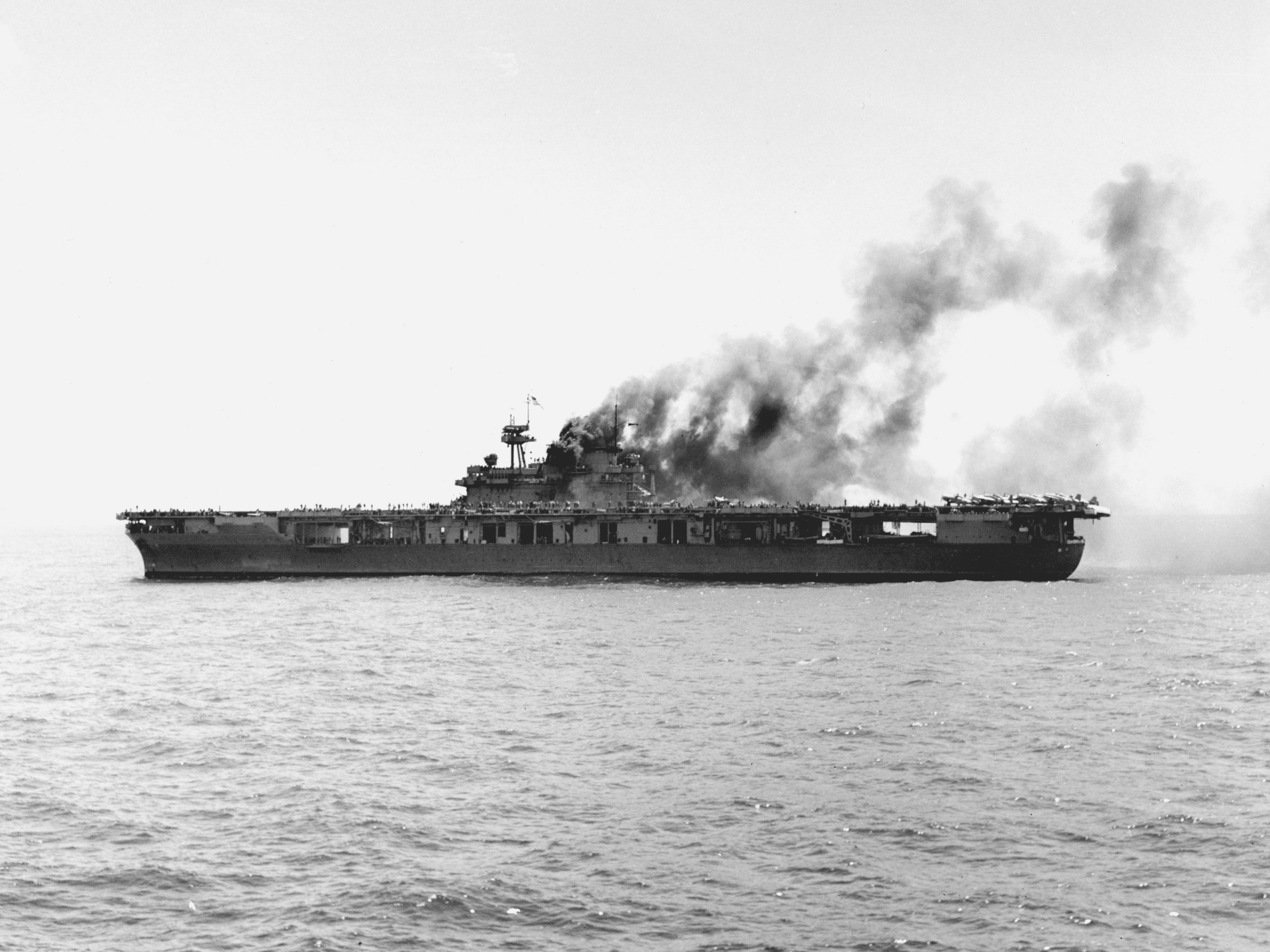 The U.S. Navy aircraft carrier USS Yorktown (CV-5) burning after the first attack by Japanese dive bombers during the Battle of Midway.